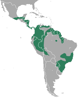 Water Opossum (Chironectes minimus) range